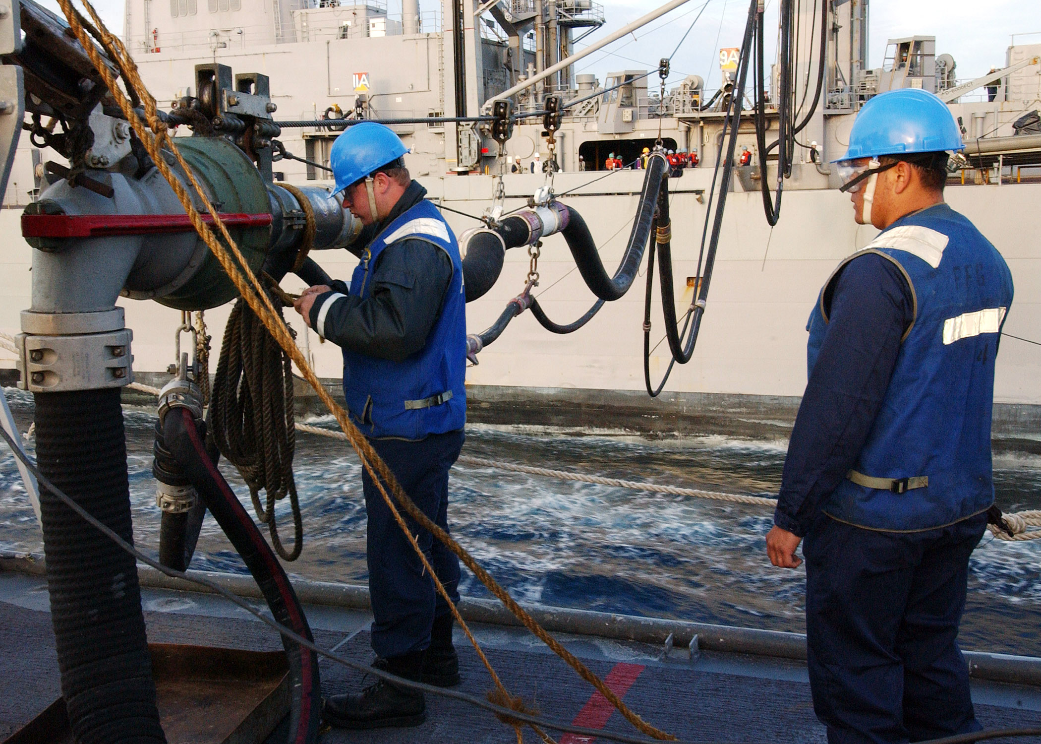 At sea aboard USS Taylor (FFG 50) Mar. 9, 2004 - Sailors assigned to the guided missile frigate USS Taylor (FFG 50) prepare to receive fuel from the fast combat support ship USS Seattle (AOE 3) during a Replenishment at Sea (RAS). Taylor is part of the USS John F. Kennedy (CV 67) Carrier Strike Group (CSG) and is currently taking part in a Composite Training Unit Exercise (COMPTUEX), which is an intermediate level training exercise, designed to forge ships in the Kennedy CSG into a cohesive fighting team. U.S. Navy photo by Photographer’s Mate 2nd Class Michael Sandberg. (RELEASED)